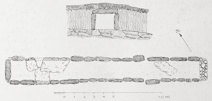 Section and plan of the gallery grave Atteln I